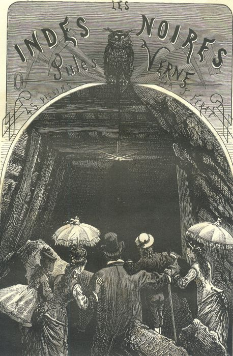 An illustration from the novel "The Child of the Cavern" (alternative English titles for this novel include: Black Diamonds, Black Indies, Child of the Cavern, or Strange Doings Underground and The Underground City) by Jules Verne drawn by Jules Férat.